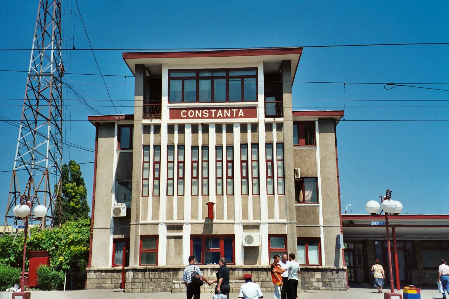 Railway station Constanta in Romania